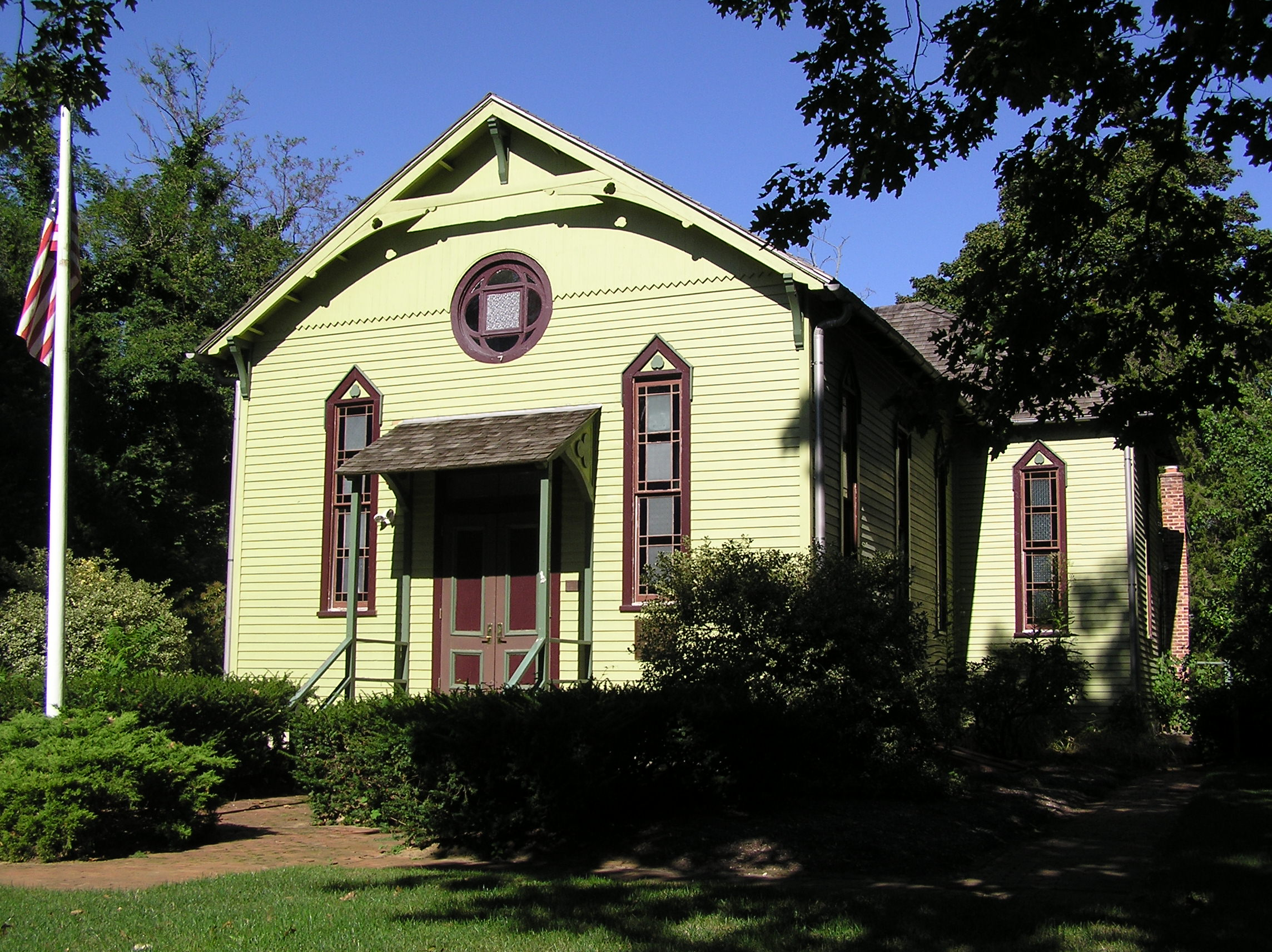 Fisk Chapel The Fisk Chapel, located on Cedar Avenue in Fair Haven, Monmouth County, New Jersey, was originally built in 1882 and dedicated to its benefactor, Civil War General Clinton B. Fisk. The building is significant as being the oldest surviving religious building on Rumson Neck and for its association with the areas first African American community. The building was originally located at 38 Fisk Street in Fair Haven and was moved in 1974 to prevent its demolition.